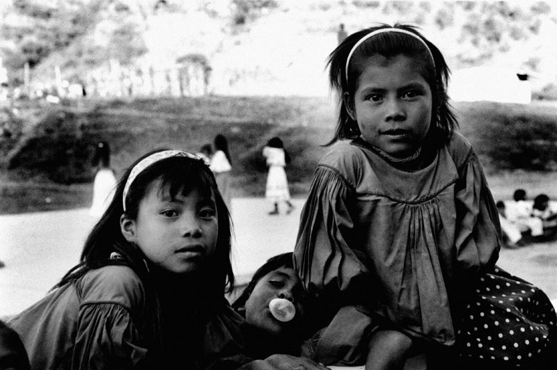 Huichol girls from Jalisco, Mexico